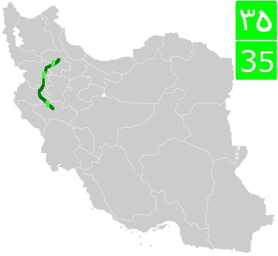 Map of Iran, highlighting Road 35 in green.